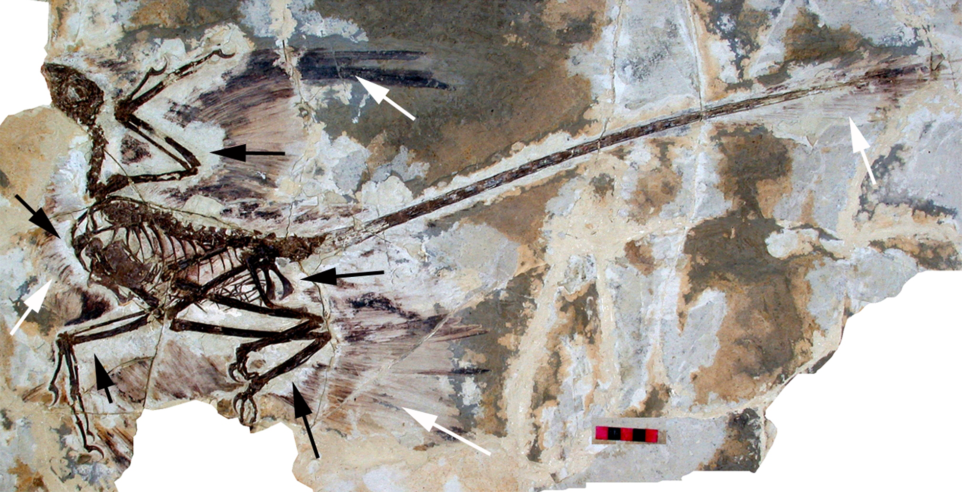 The holotype of Microraptor gui, IVPP V 13352 under normal light. This shows the preserved feathers (white arrow) and the 'halo' around the specimen where they appear to be absent (black arrows). Scale bar at 5 cm.